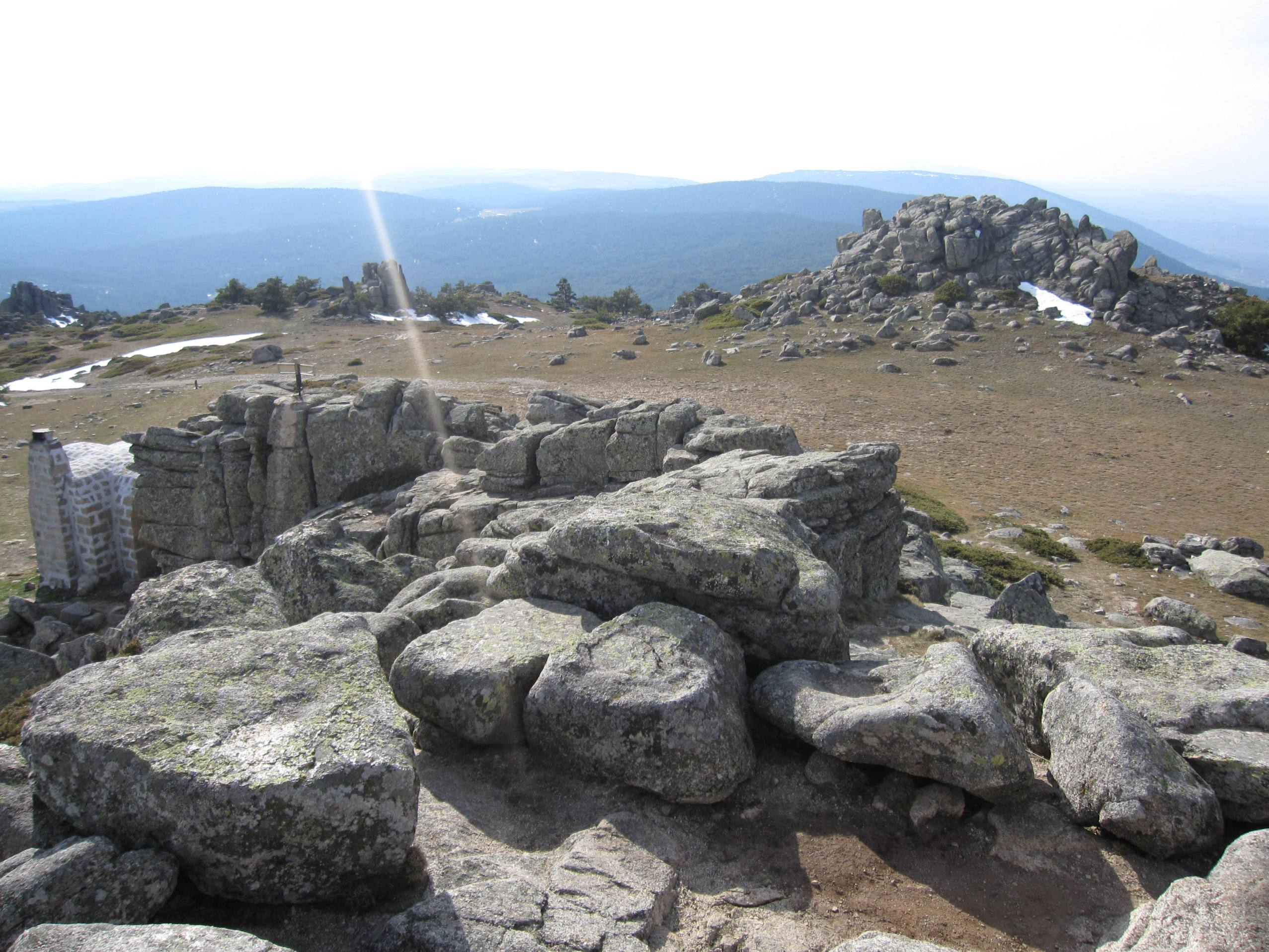 Meadow in Cueva Valiente summit (Guadarrama mountain range, Central Spain).